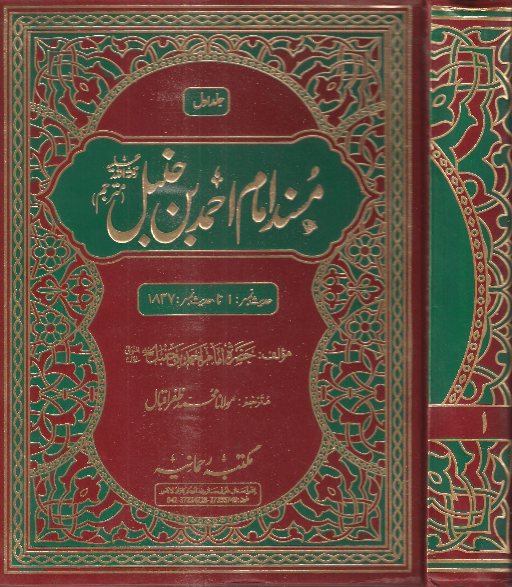 Front cover of Musnad Imam Ahmed Ibn Hanbal Urdu translation, published by Maktabae Rehmania, Lahore, Pakistan.